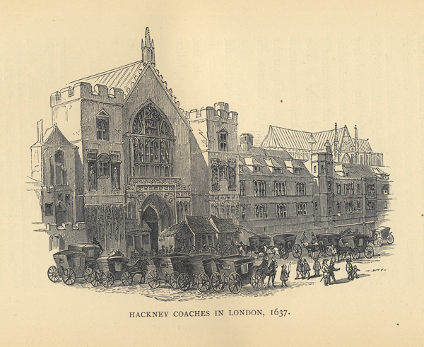 Hackney Coaches 1637 from Walter Gilby's "Early Carriages and Roads", 1903.